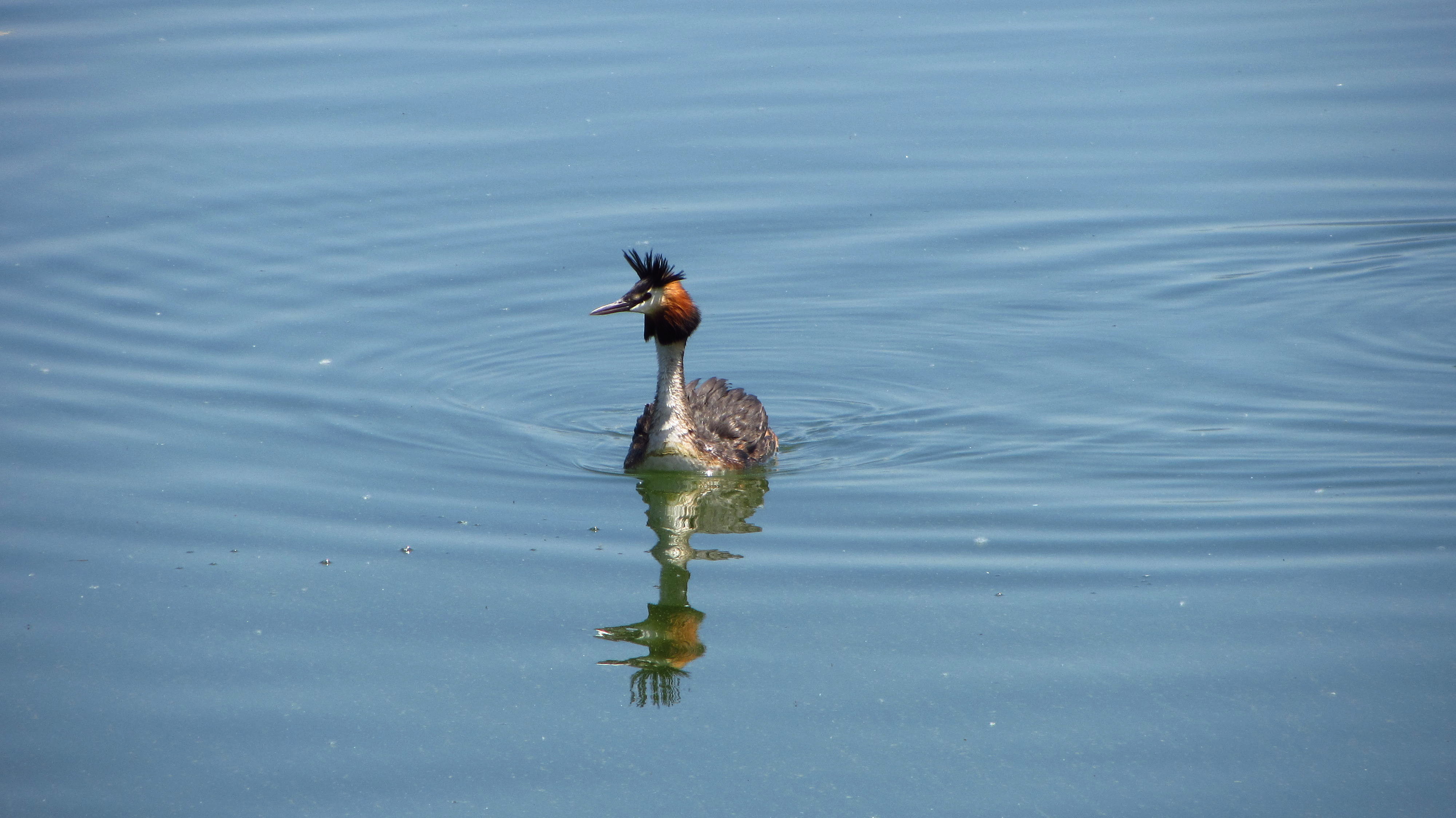 This is a photography of Natura 2000 protected area with ID GR2130005